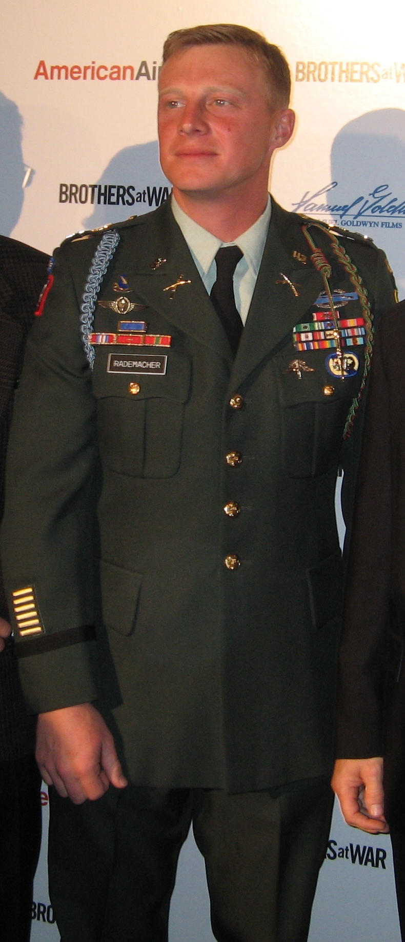 Capt. Isaac Rademacher at the premier of Brothers At War at the National Press Club, February 20, 2009.